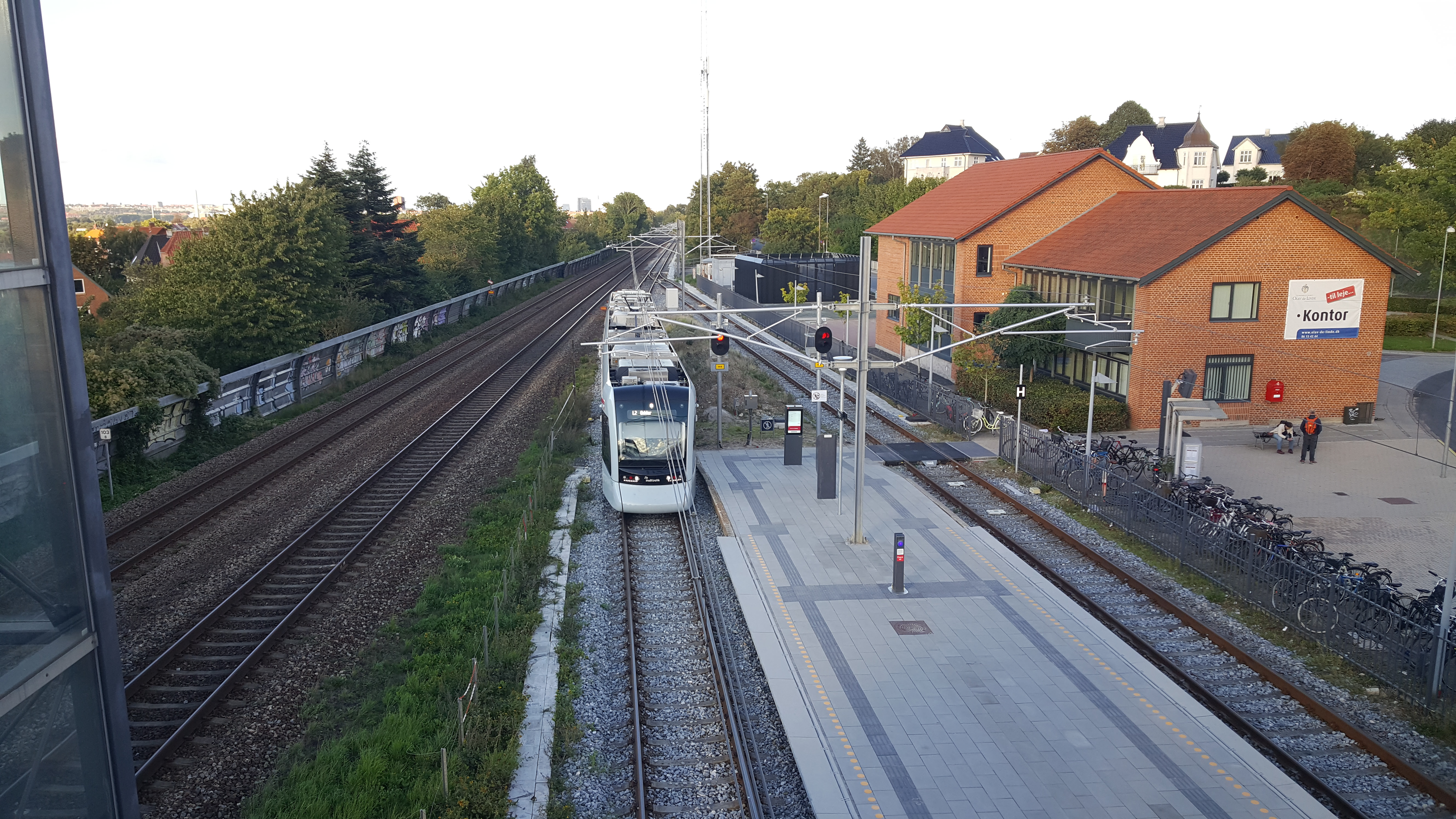 Viby (Jylland) railway and tramway station